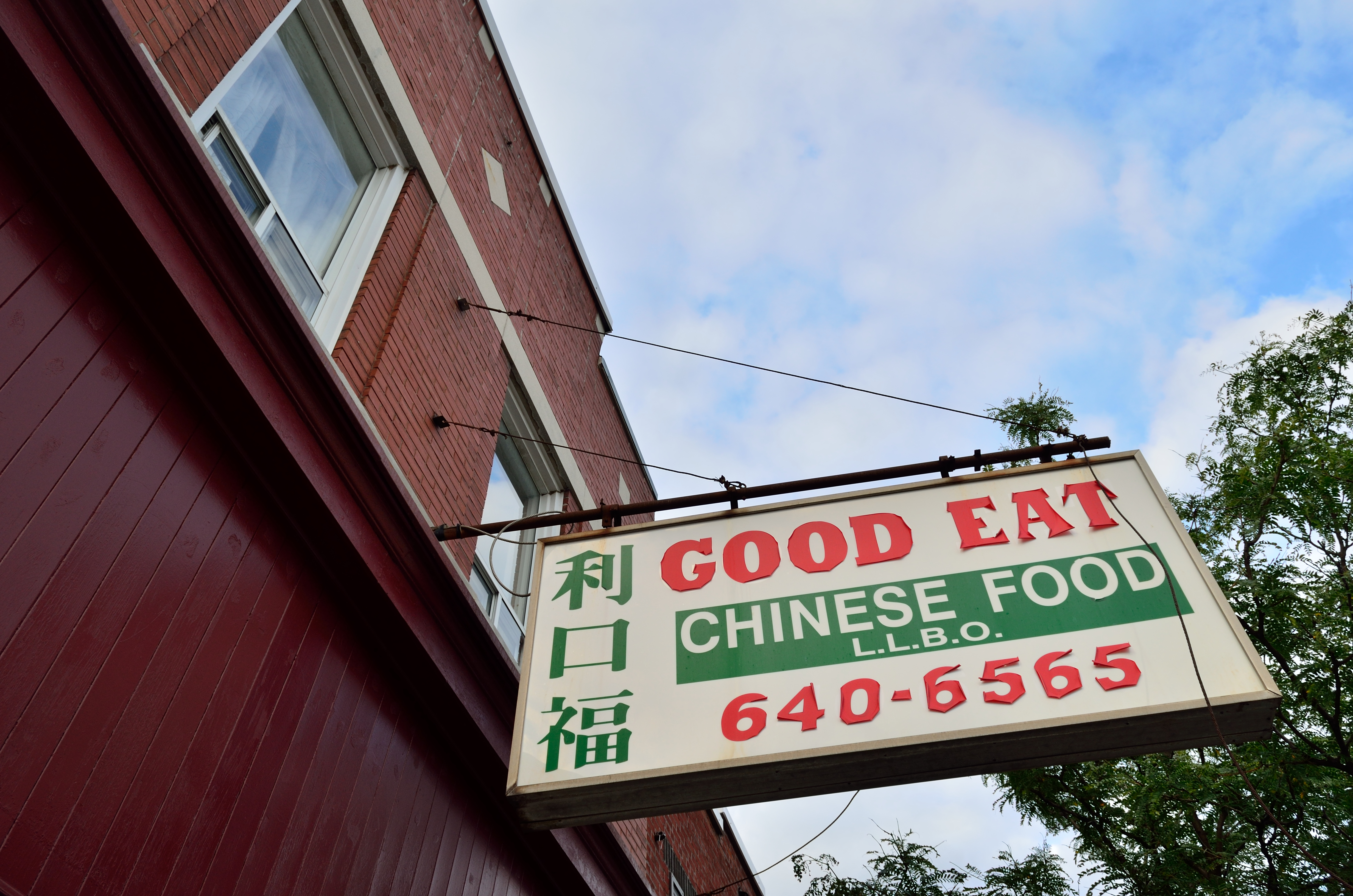 Good Eat Chinese Restaurant. Address: 6294 Main St, Whitchurch-Stouffville, ON L4A 1G8